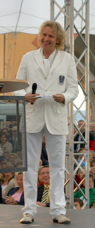 Thomas Gottschalk during the opening of the Haribo-exhibition at Festung Ehrenbreitstein in Koblenz